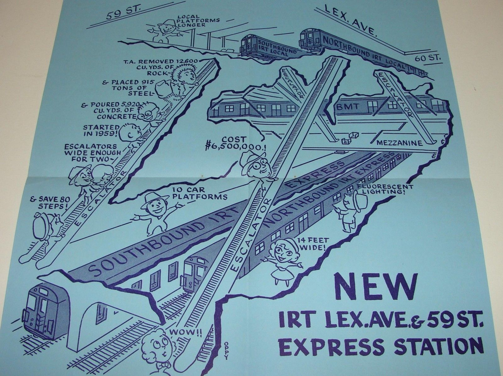 This is a brochure that was handed out at the inaugural ceremonies for the opening of the 59th Street Express station below the local platforms.